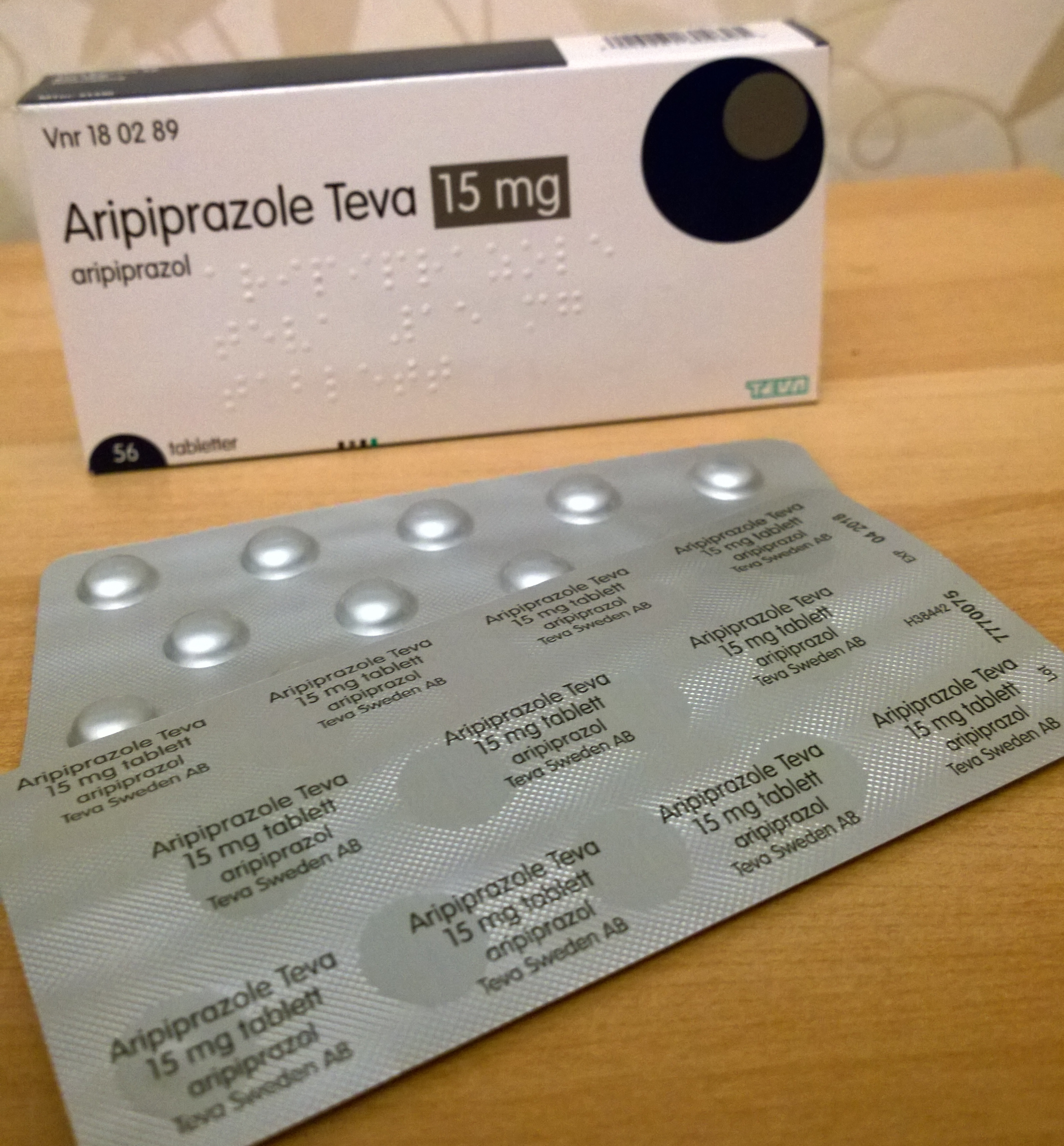 Generic aripiprazole (abilify)